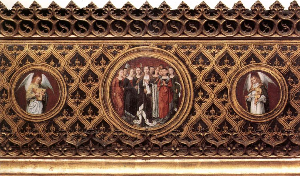 St Ursula Shrine Gilded and painted wood, 87 x 33 x 91 cm Memlingmuseum, Sint-Janshospitaal, Bruges